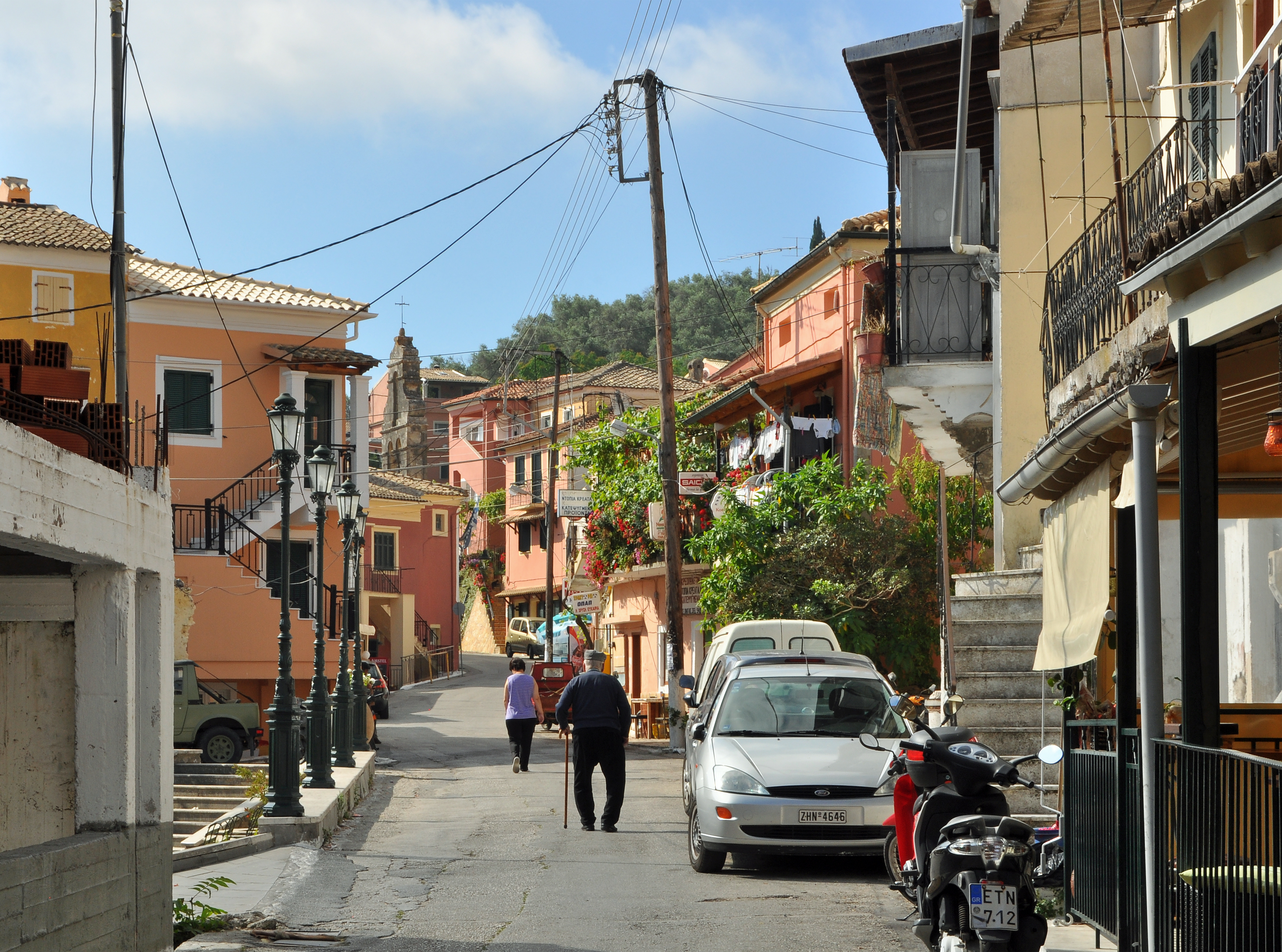 Sinarades (Σιναράδες Κέρκυρας, Corfu, Greece): the village, main street